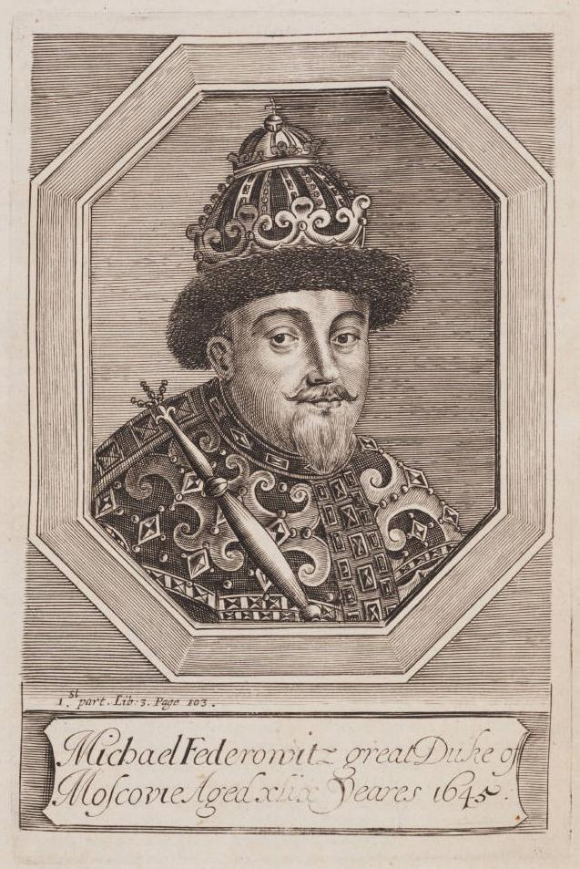 Michael Federowitz Great Duke of Moscovie Aged xlix Yeares 1645 [Mikhail I Fyodorovich Romanov (1596–1645)], engraving from Adam Olearius's The voyages & travels of the ambassadors sent by Frederick duke of Holstein, to the great Duke of Muscovy, and the King of Persia: Begun in the year M.DC.XXXIII and finished in M.DC.XXXIX (London: Printed for Thomas Dring and John Starkey, 1662)